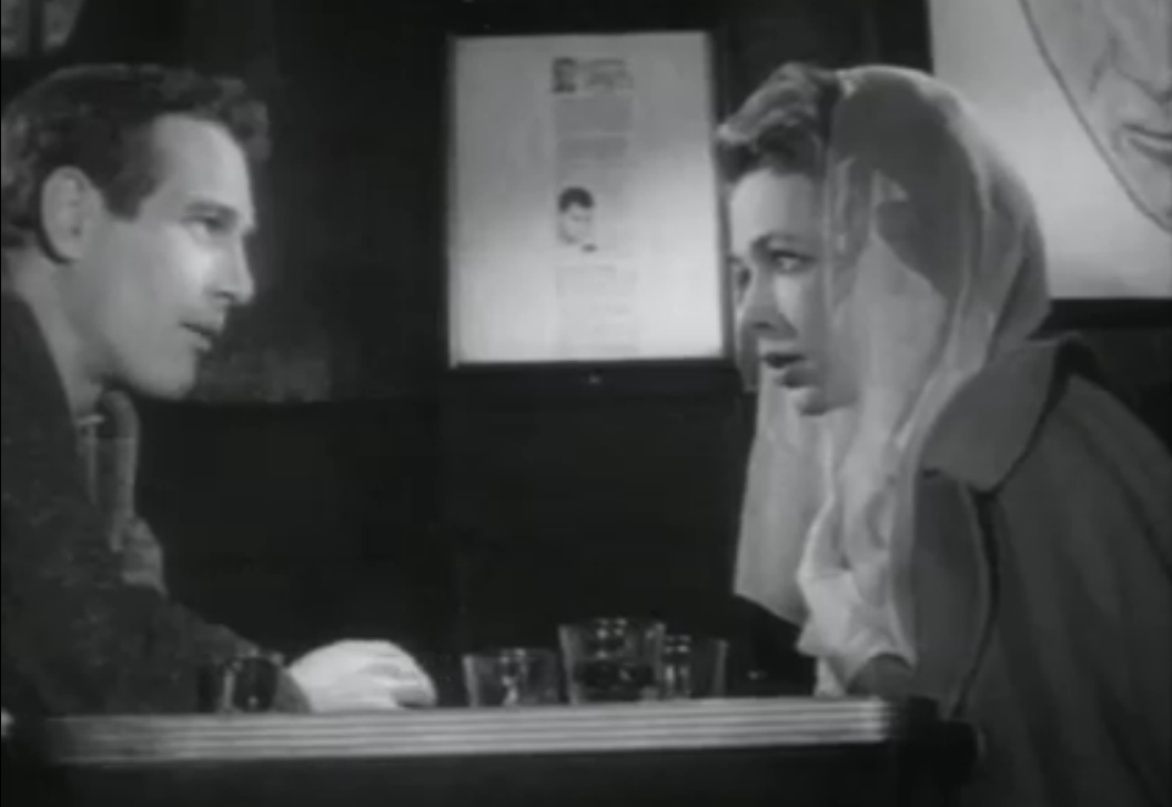 Trailer screenshot of The Hustler (1961).